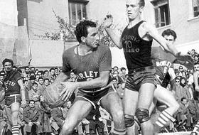 The Italian baskteball (and water polo) player Cesare Rubini